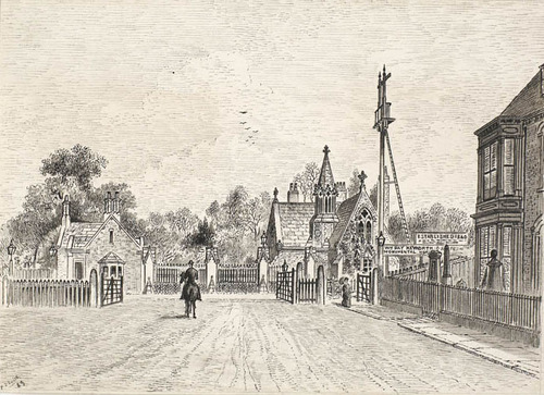 Entrance to the Spring Bank Cemetery, showing the Botanic Gardens Level Crossing, 1889